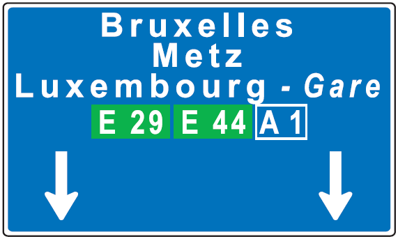 Diagram of road signs of Luxembourg